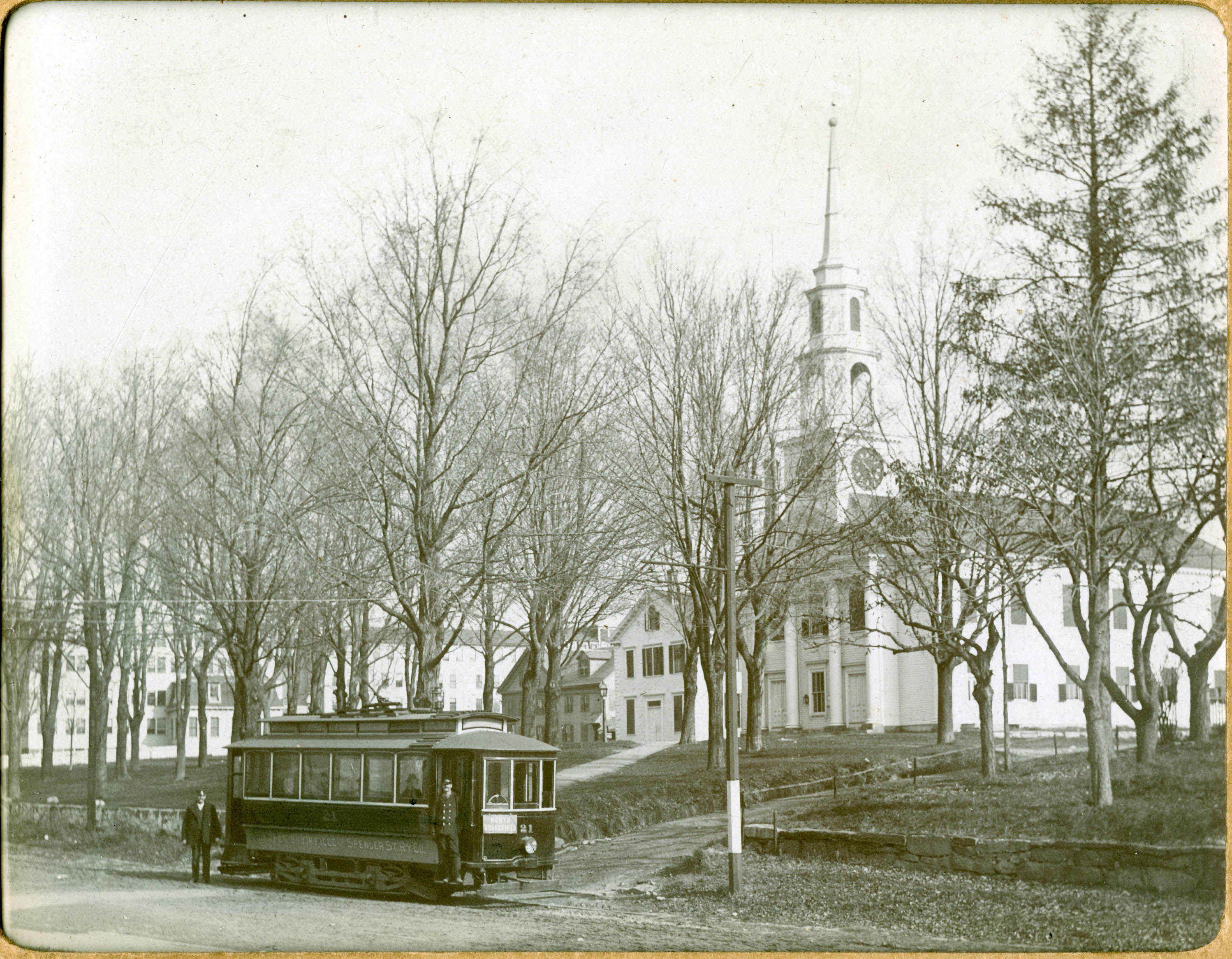 First Congregational Church, North Brookfield with trolley of the Ware, Brookfield & Spencer Street Railway Co., car No. 21 with "North Brookfield" sign.